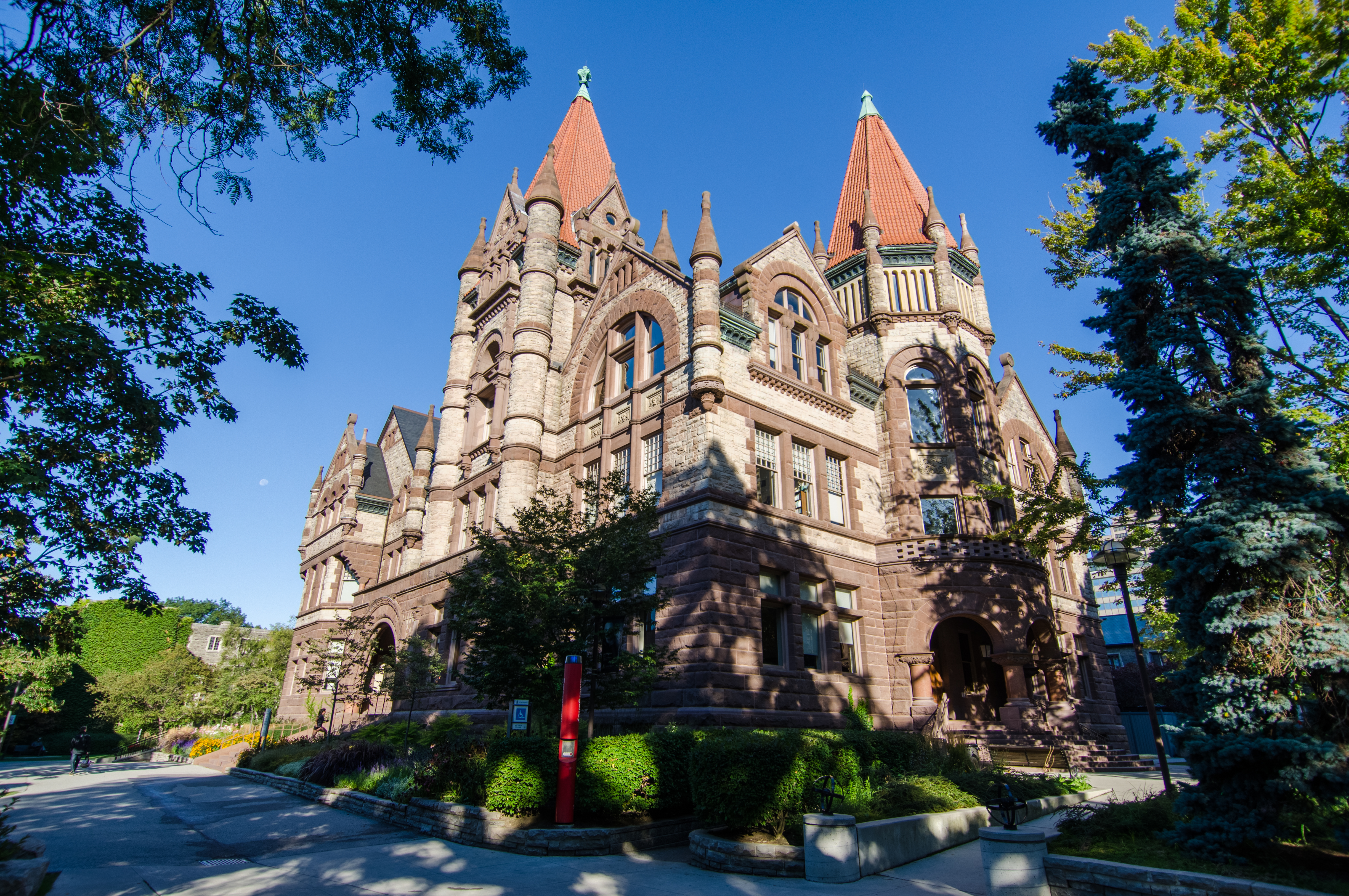 Seen in the film Almost Adults and Hannibal episode #111.